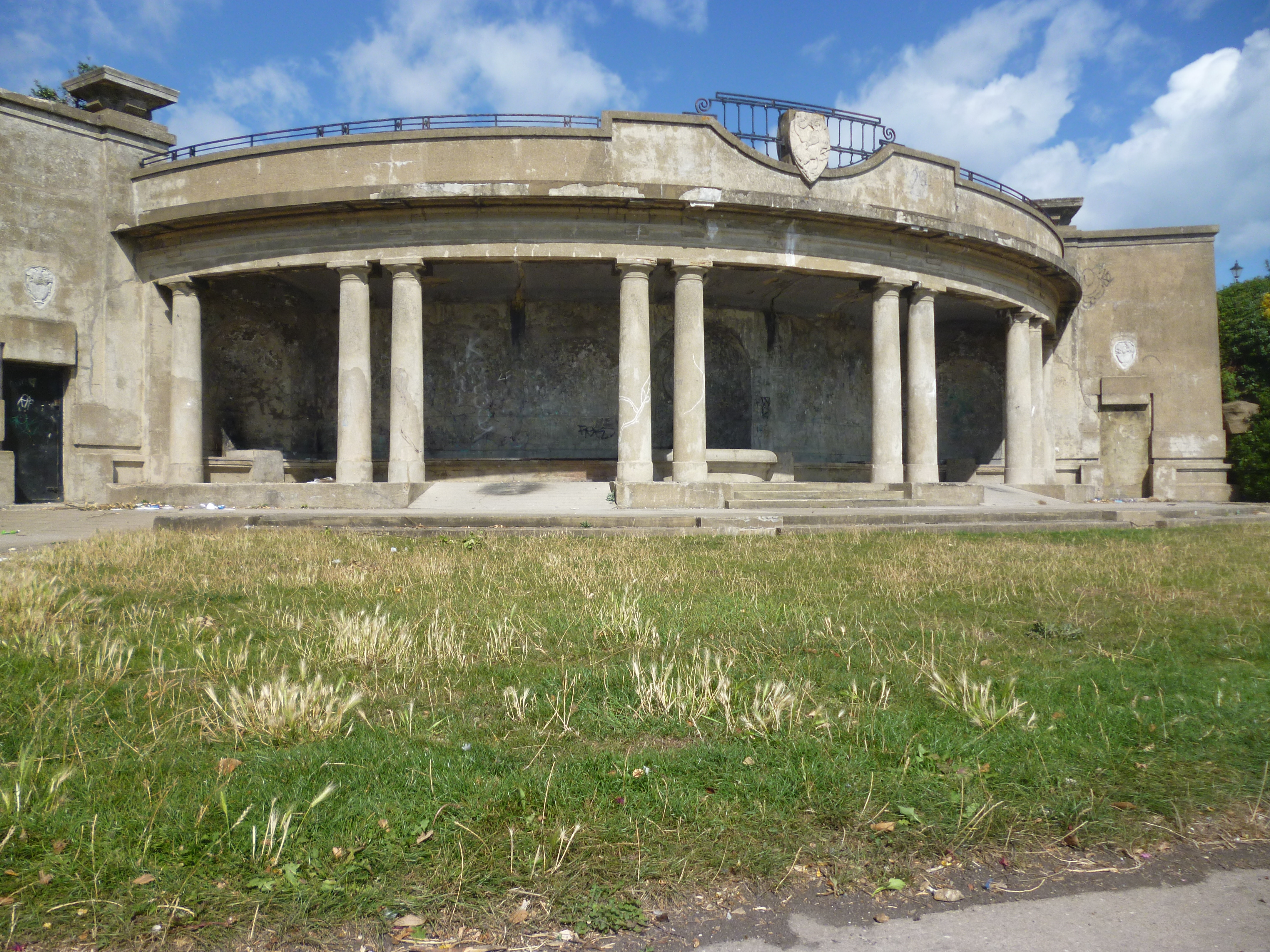 Winterstoke sun shelter, photographed by Benedict Kelly, 2013.